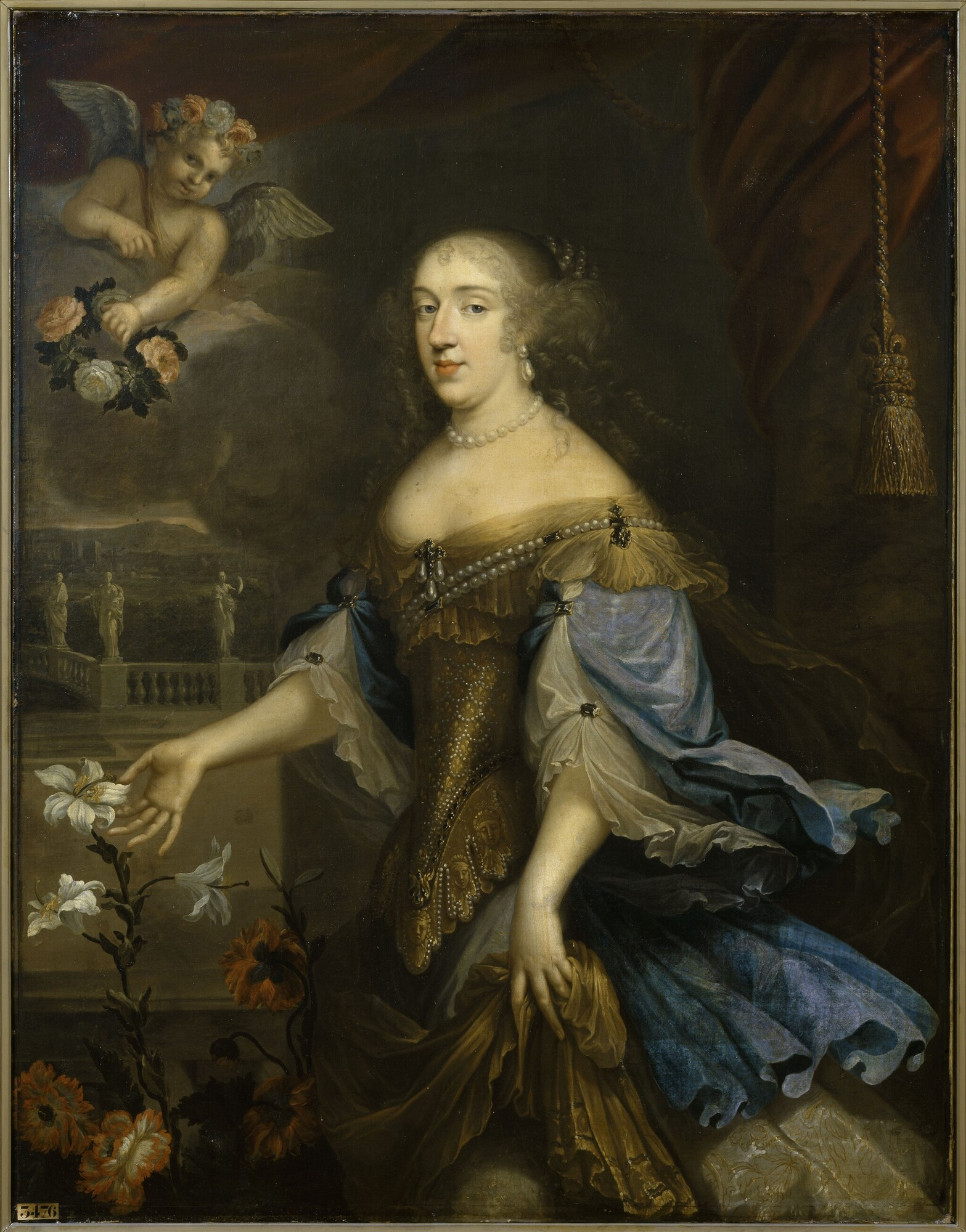 Portrait of Anne Marie Louise d'Orléans (1627-1693), Duchess of Montpensier, also referred to as La Grande Mademoiselle